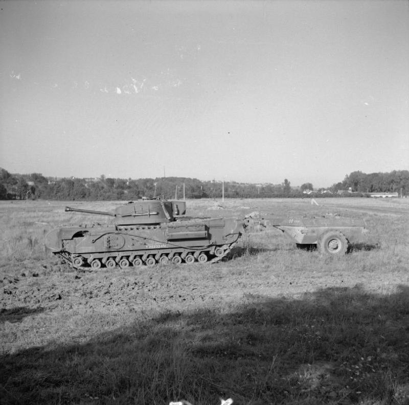 The British Army in France 1944 A Churchill Crocodile flame-throwing tank during a demonstration, 25 August 1944.